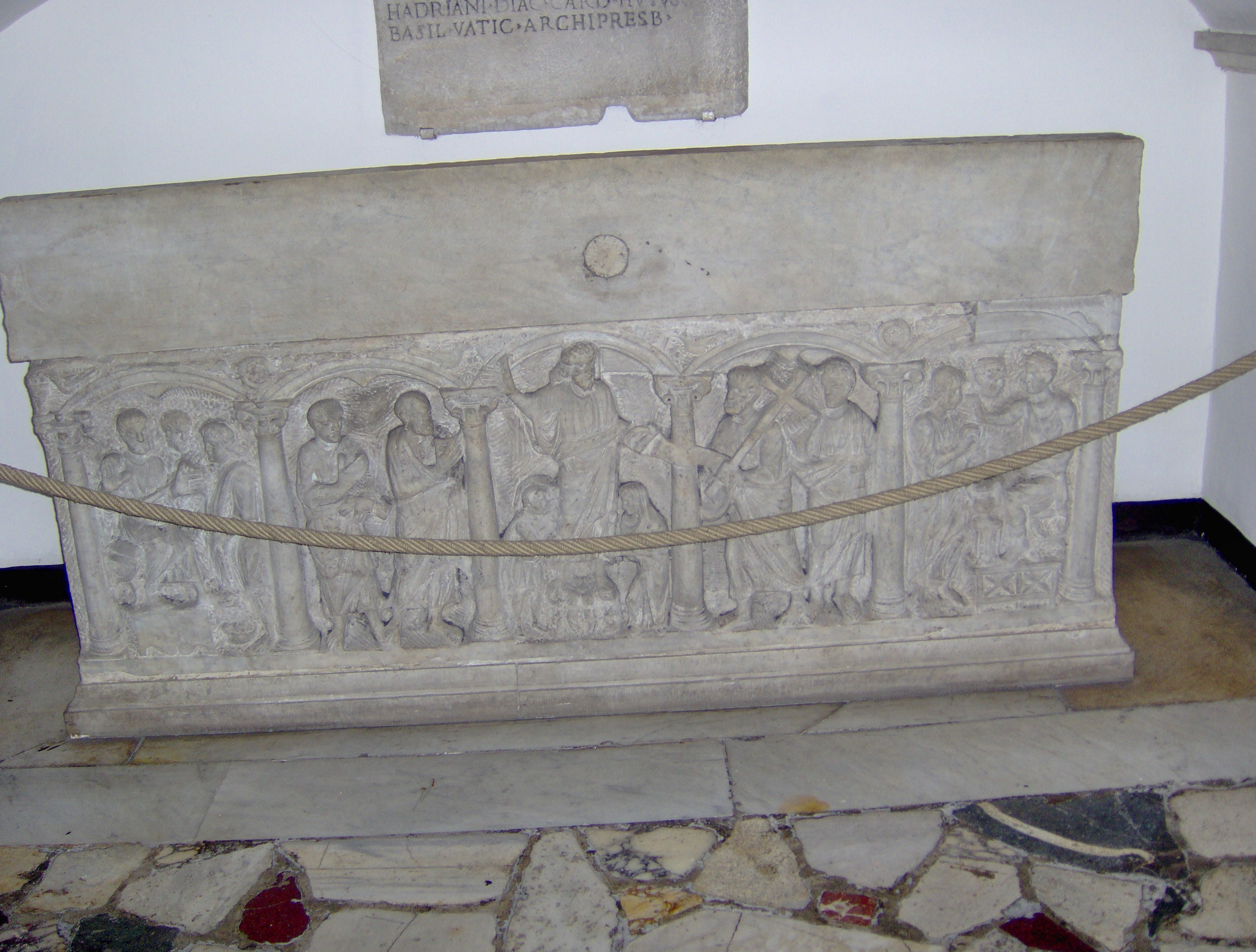 Grotte vaticane , tomb